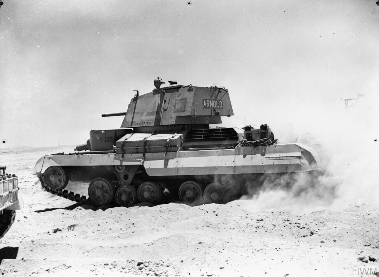 IWM caption : Cruiser tank Mk I (A9), 'Arnold', of 1st RTR (Royal Tank Regiment), Abbasia, Egypt.